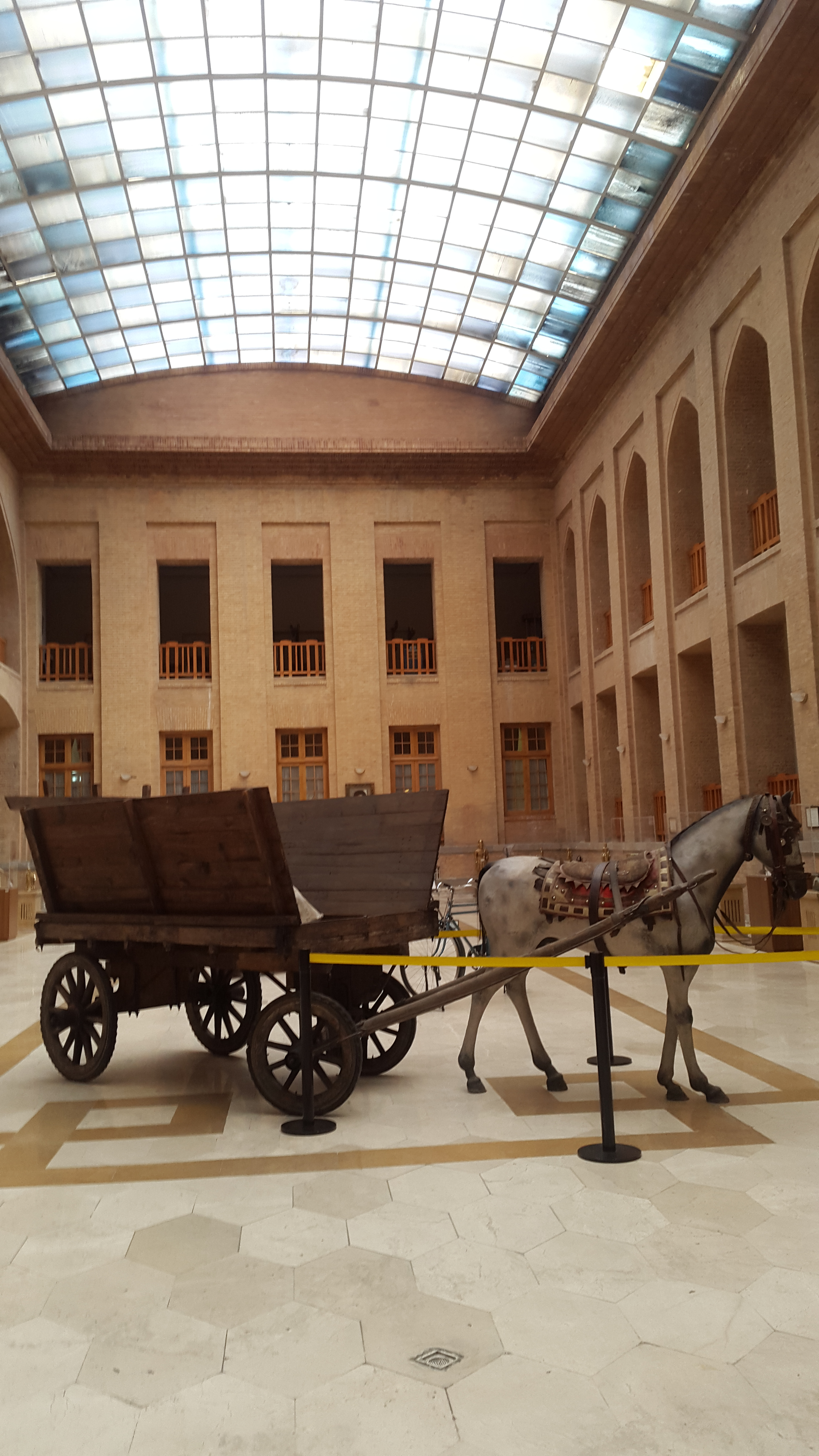 Iran Tehran museum post